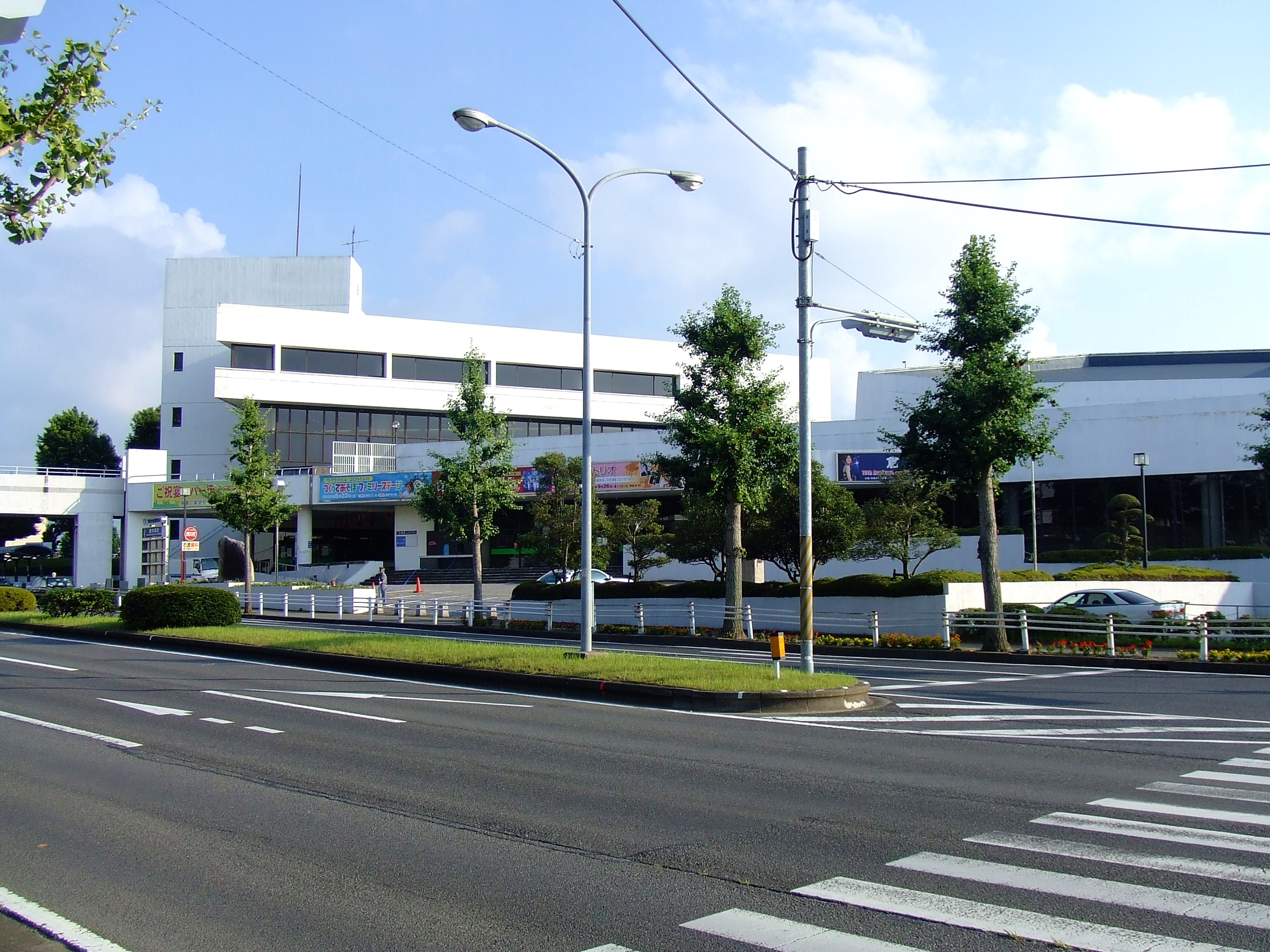 Ichihara Civic Hall